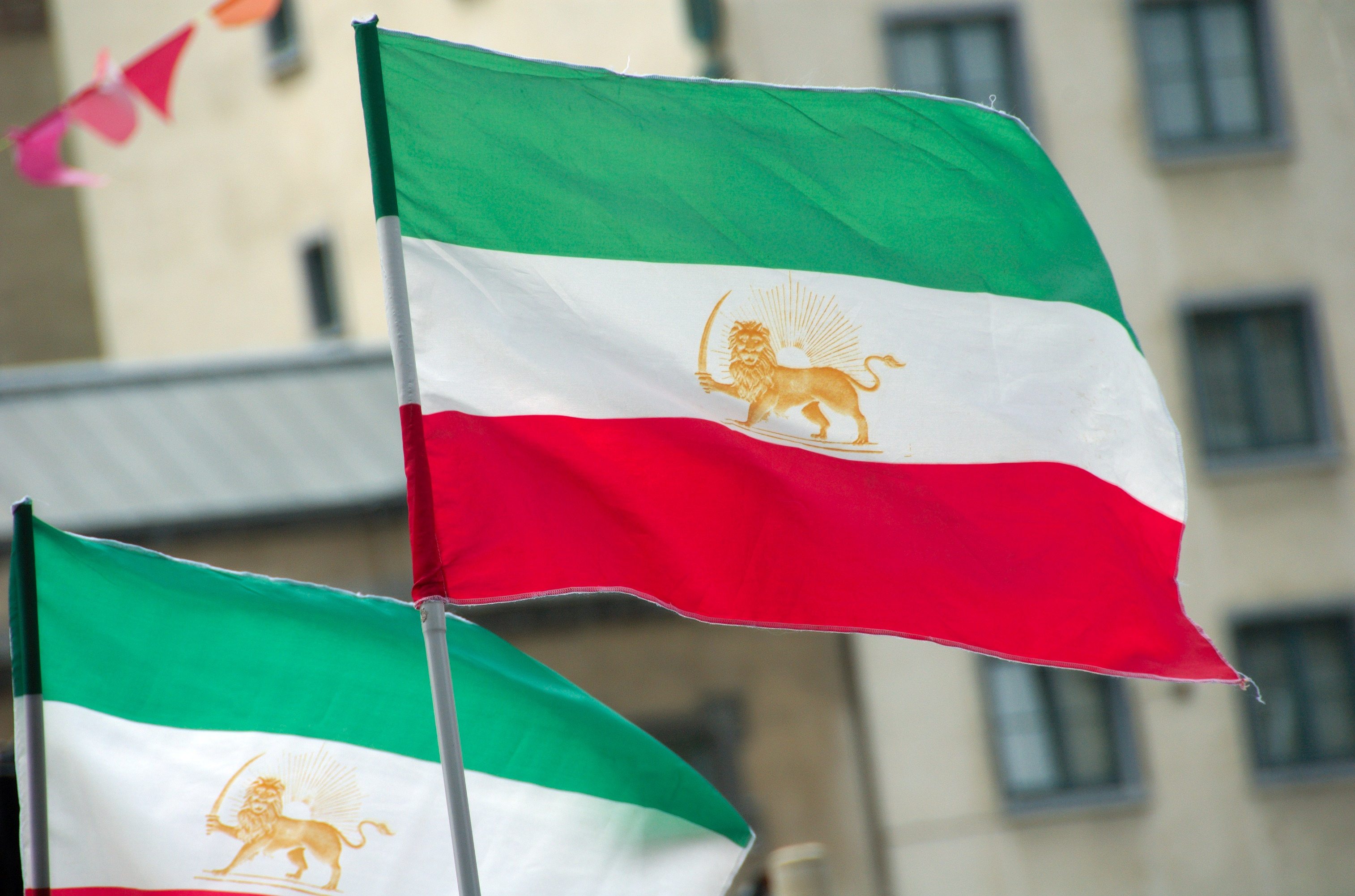 Iranian flags carried trough the streets of Brussels by the people's mujahedin of Iran, during a manifestation for the regularisation of illegal immigrants (sans papiers).